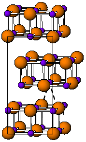 TlI-type crystal structure